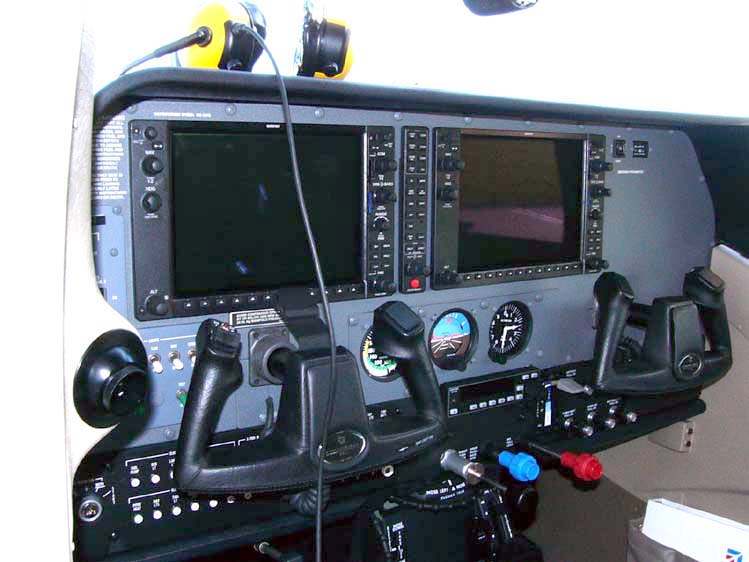 2005 model Cessna 206H Stationair instrument panel with the Garmin G1000 "glass cockpit". Image modified by User:Arpingstone to remove the "veil" fading.